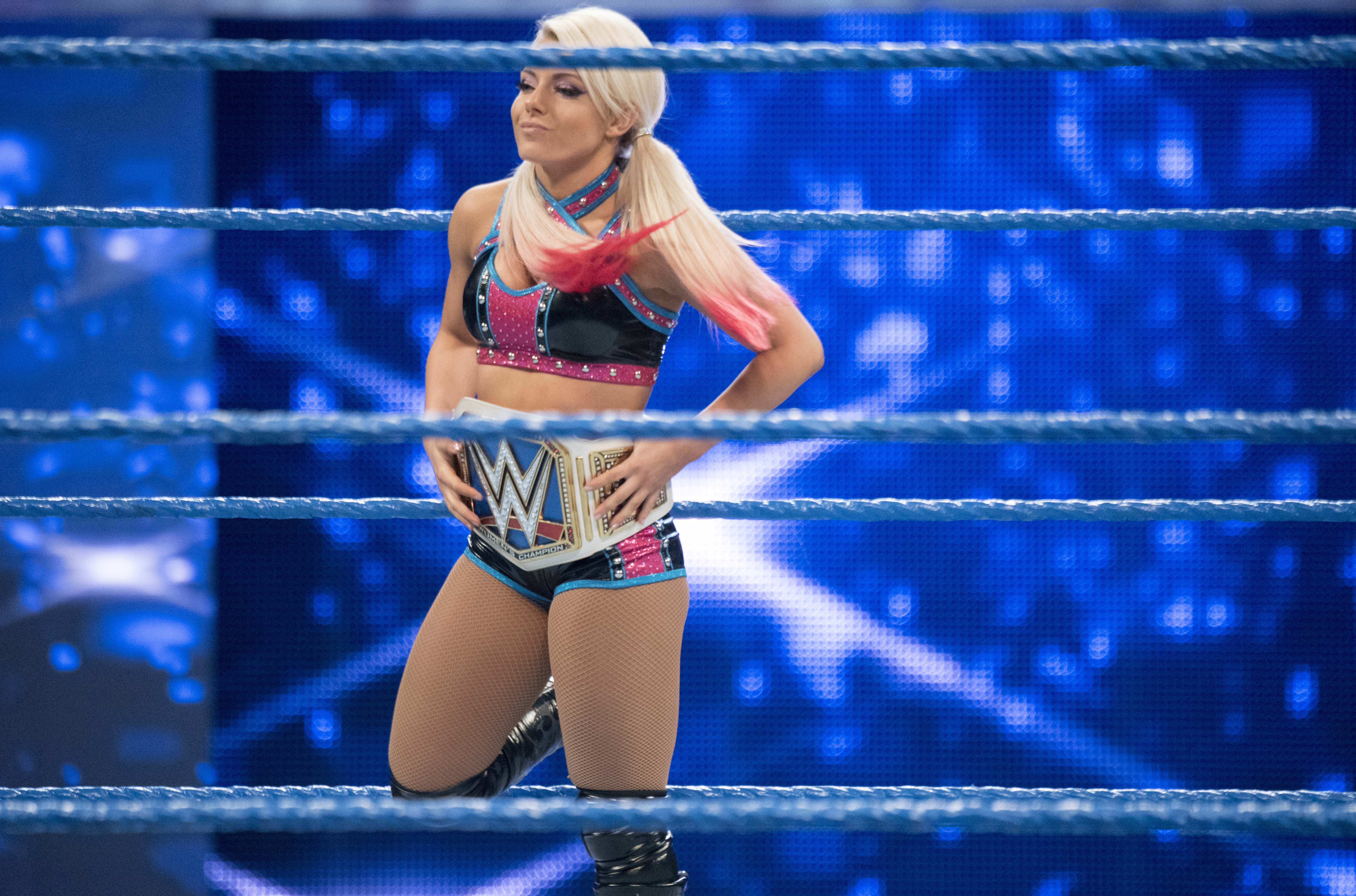 WWE performer Alexa Bliss participates in the 14th Annual Tribute to the Troops Event at the Verizon Center in Washington, D.C., Dec. 13, 2016. WWE Tribute to the Troops is an annual event held by WWE and Armed Forces Entertainment in December during the holiday season since 2003, to honor and entertain United States Armed Forces members. WWE performers and employees travel to military camps, bases and hospitals, including the Walter Reed Army Medical Center and Bethesda Naval Hospital. DoD Photo by Navy Petty Officer 2nd Class Dominique A. Pineiro